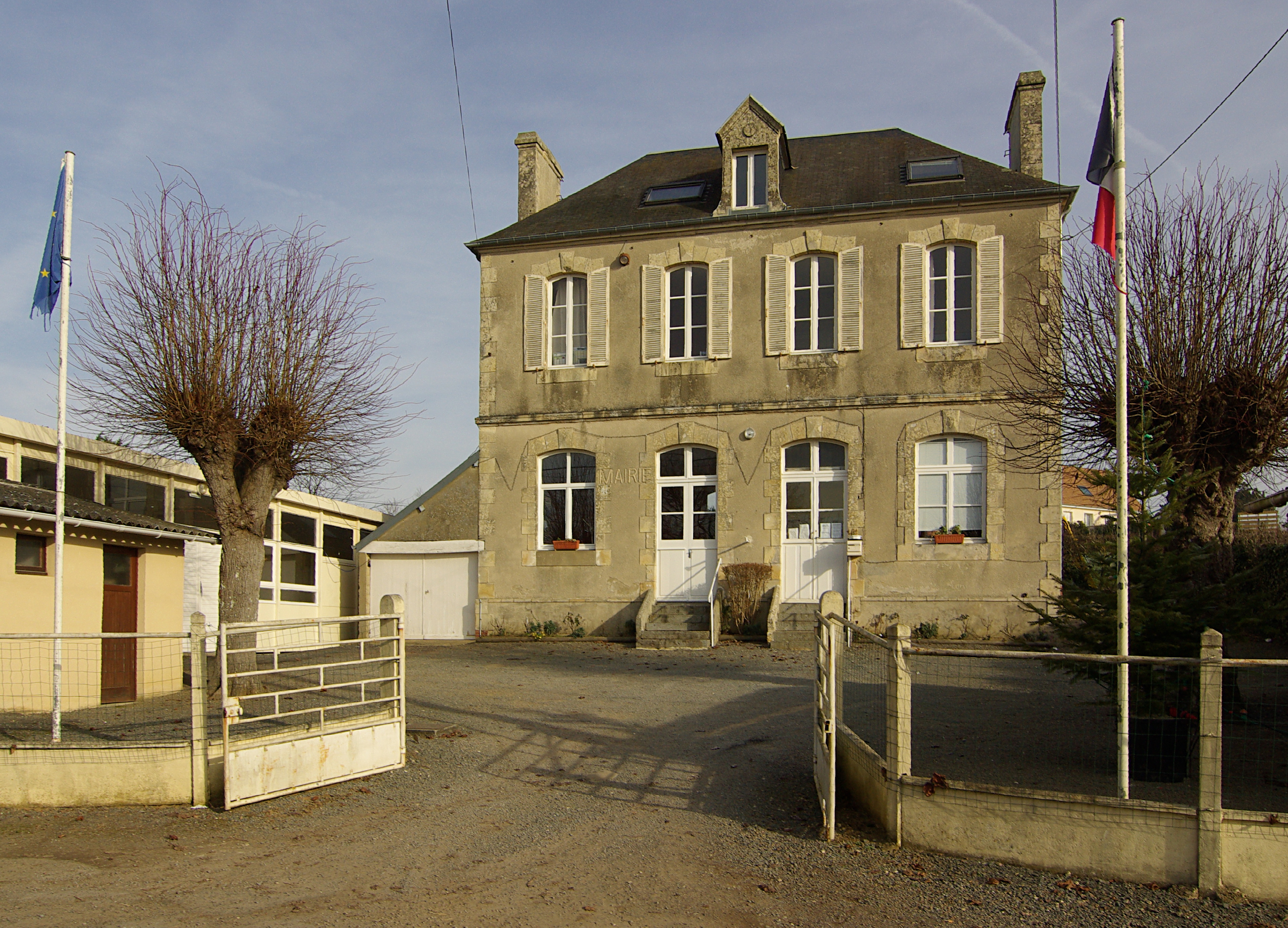 Maizet's Town hall.